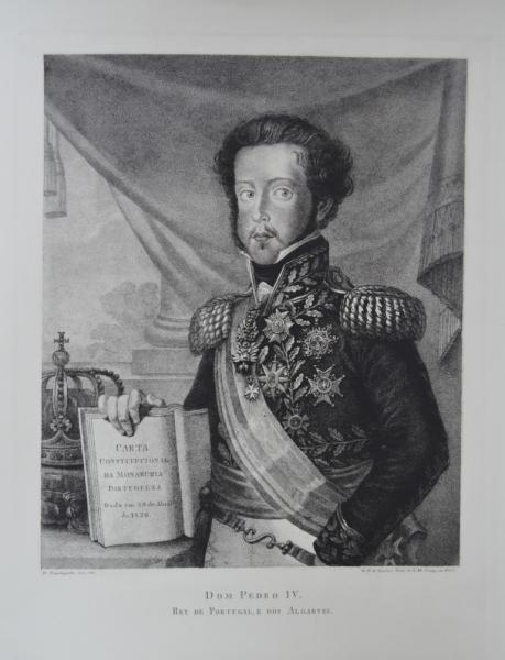 Pedro IV of Portugal.